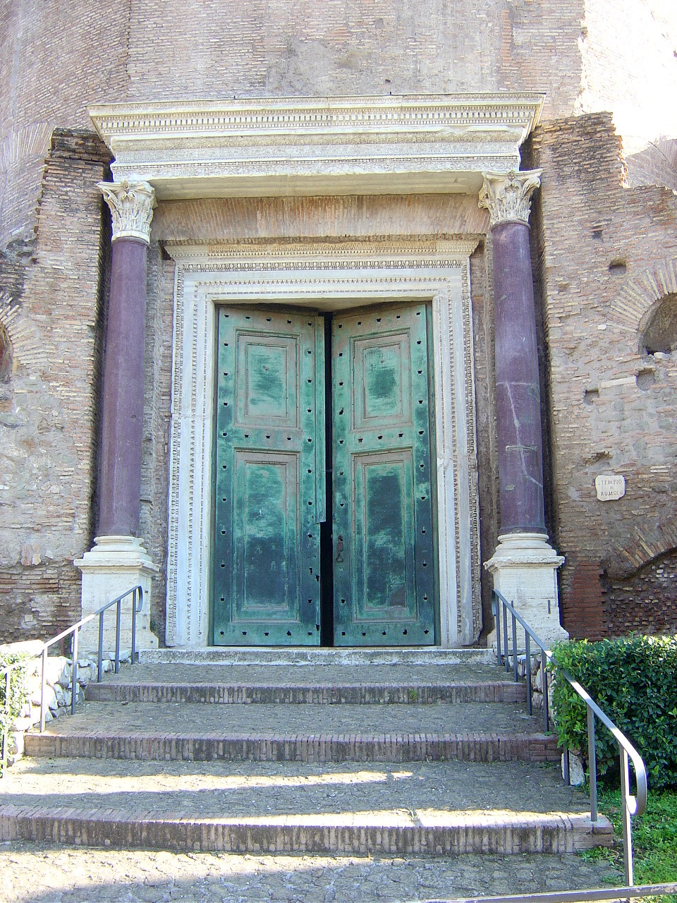 The ancient bronze doors are still in their original place in this monument, which though called the "temple of Romulus" (referring not to the legendary Romulus, founder of Rome, but to the young son of the emperor Maxentius) was probably just the office of the urban praetor, the official in charge of urban planning in ancient Rome.